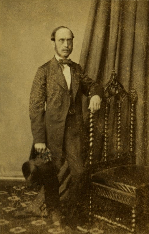 António Manuel de Medeiros da Costa Canto e Albuquerque, 1.º Visconde das Laranjeiras (1816-1884)